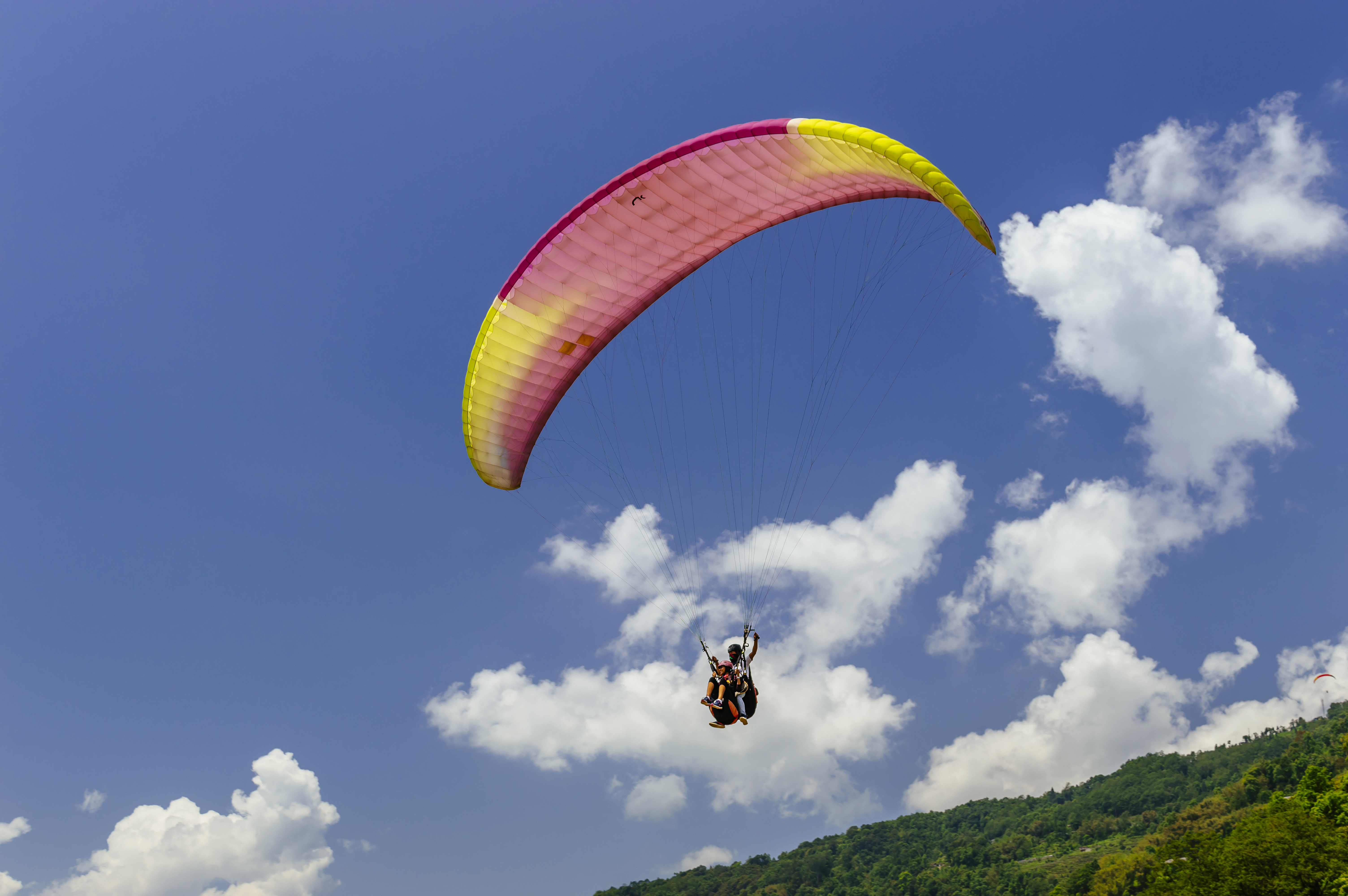 An assisted para glider making a descent near Khel Gaon Resithang, Sikkim